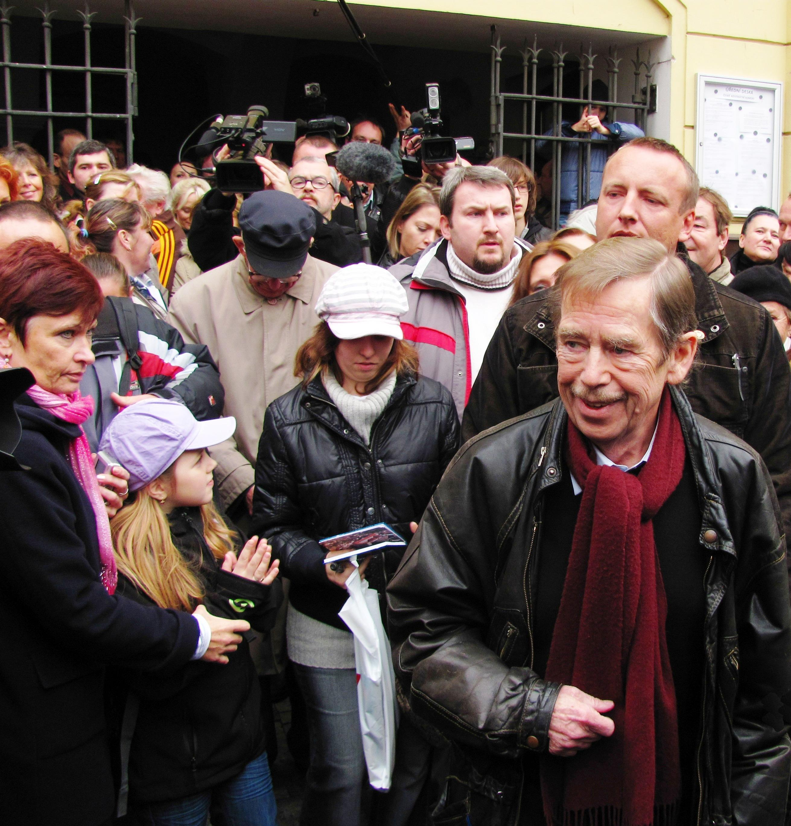 Václav Havel, Fmr.President of the Czech Republic at Velvet Revolution Anniversary in 2010 (Národní Street, Prague)